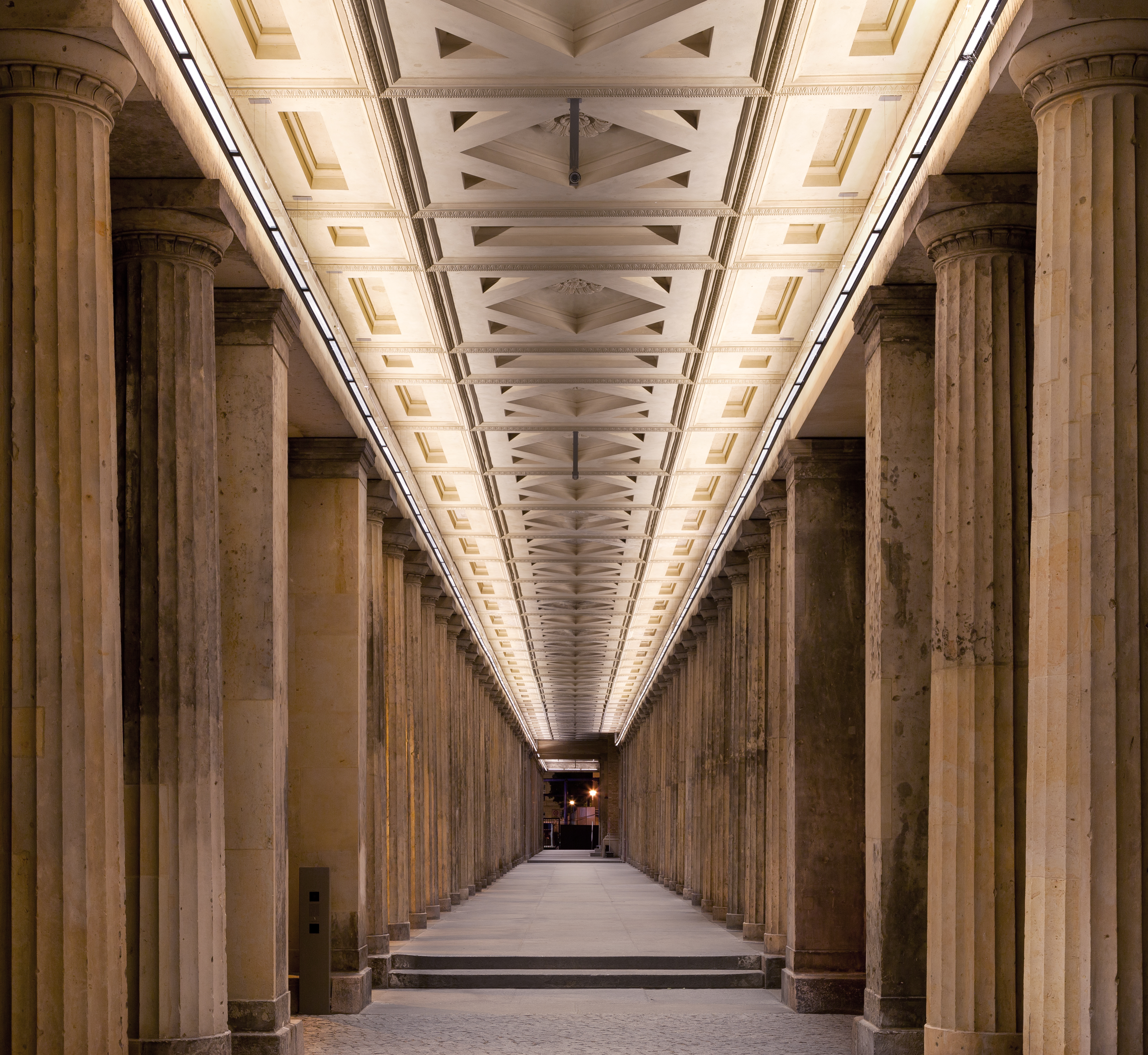 Colonnade in front of Alte Nationalgalerie in Berlin, Germany.